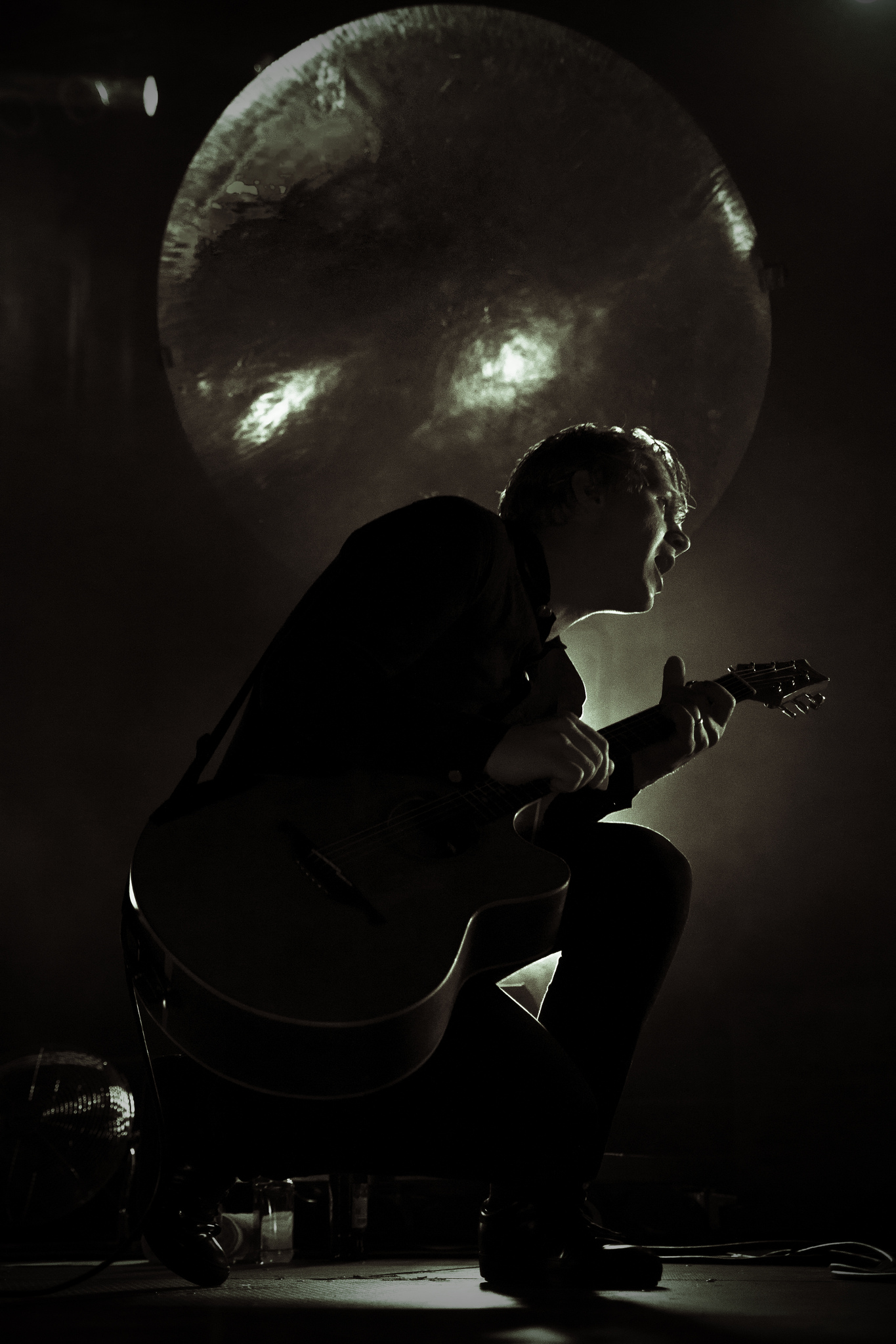 John of Johnossi at Rocken am Brocken 2013